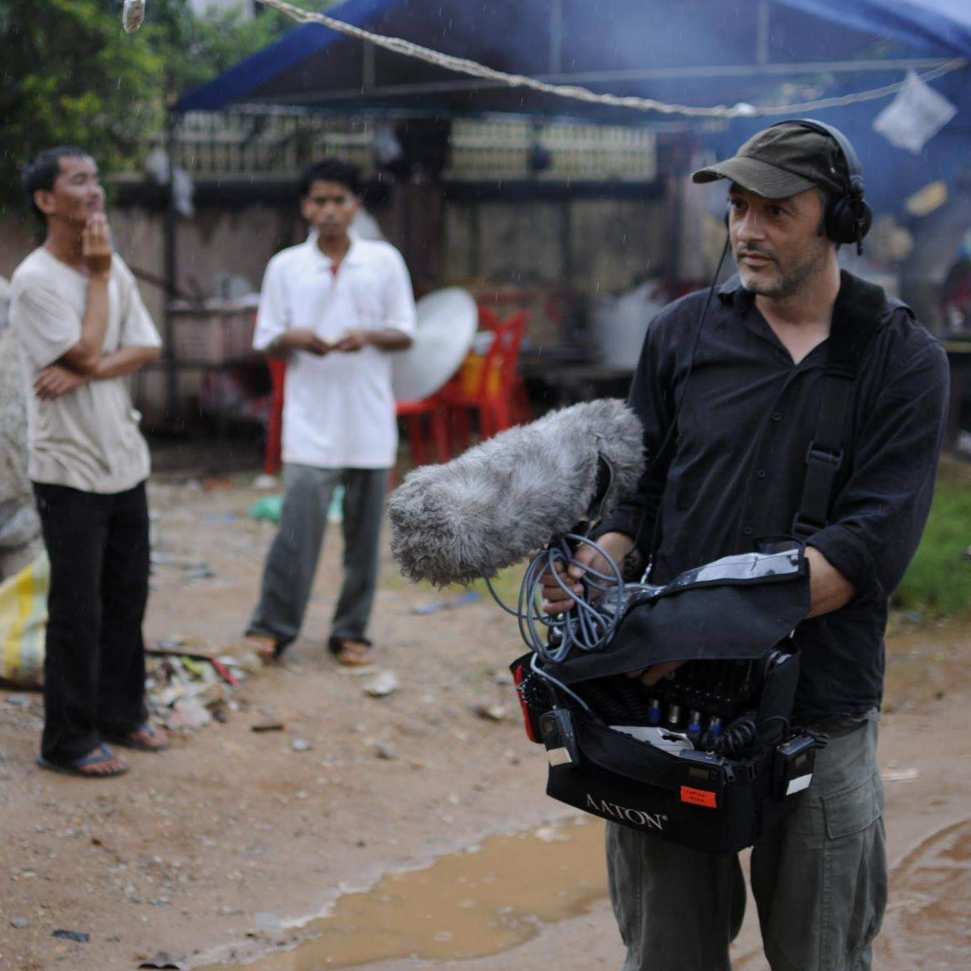 Audio engineer